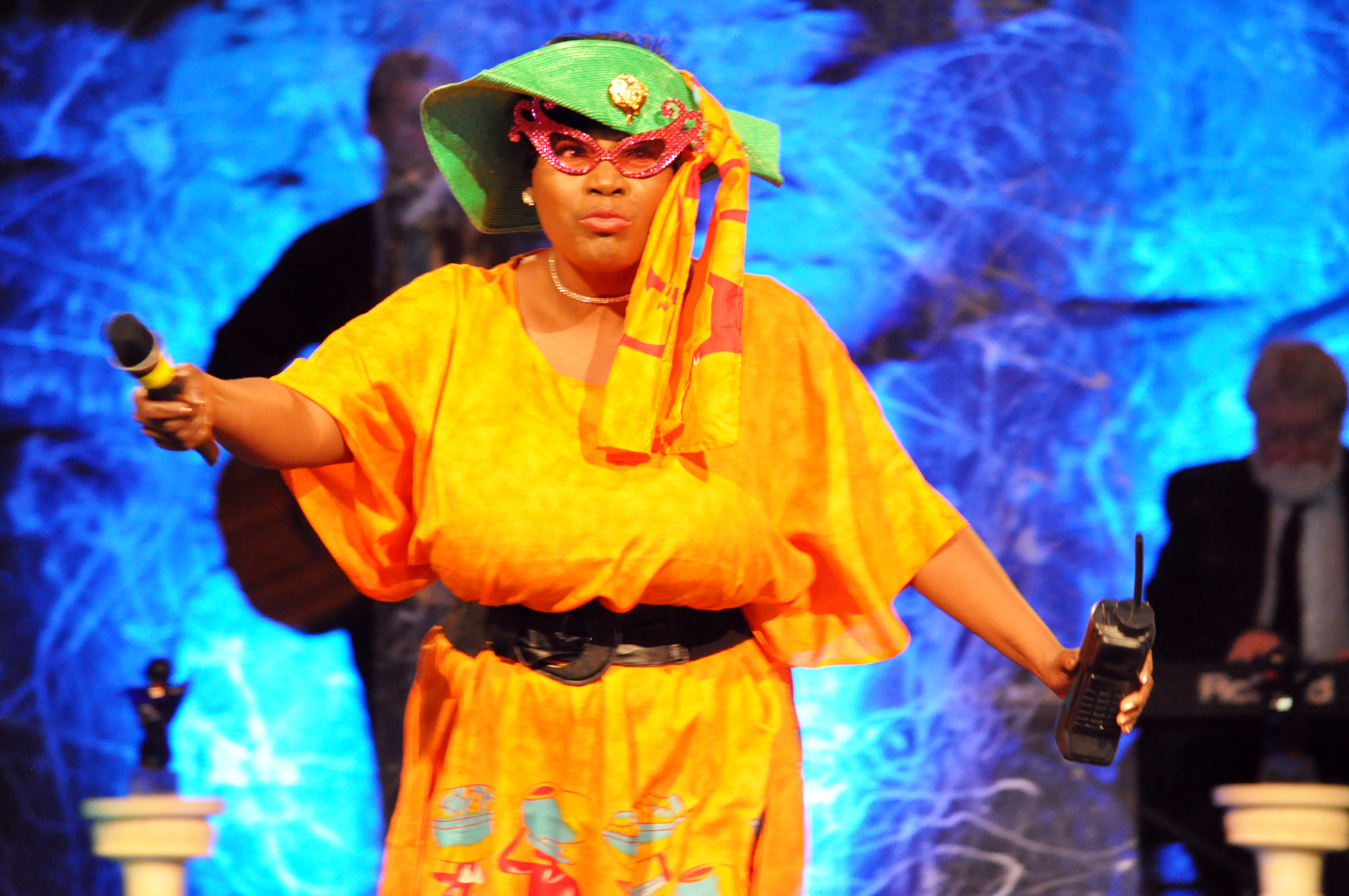 Sister Cantaloupe appears on the 2012 AMG Heritage Awards